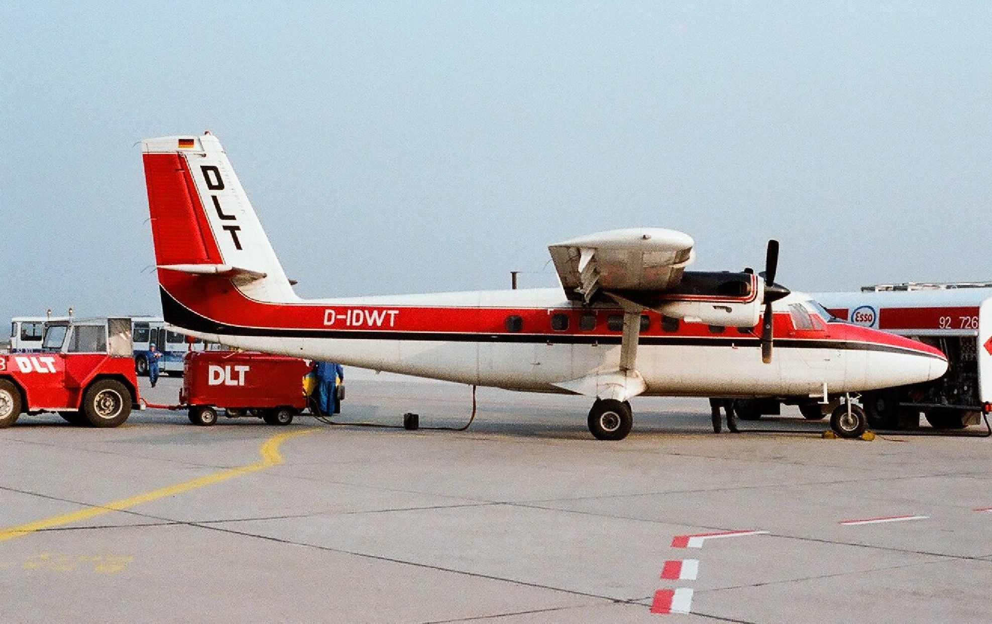 DHC-6 Twin Otter D-IDWT of DLT Deutsche Luftverkehrsgesellschaft at Flughafen Frankfurt, 28.2.1983